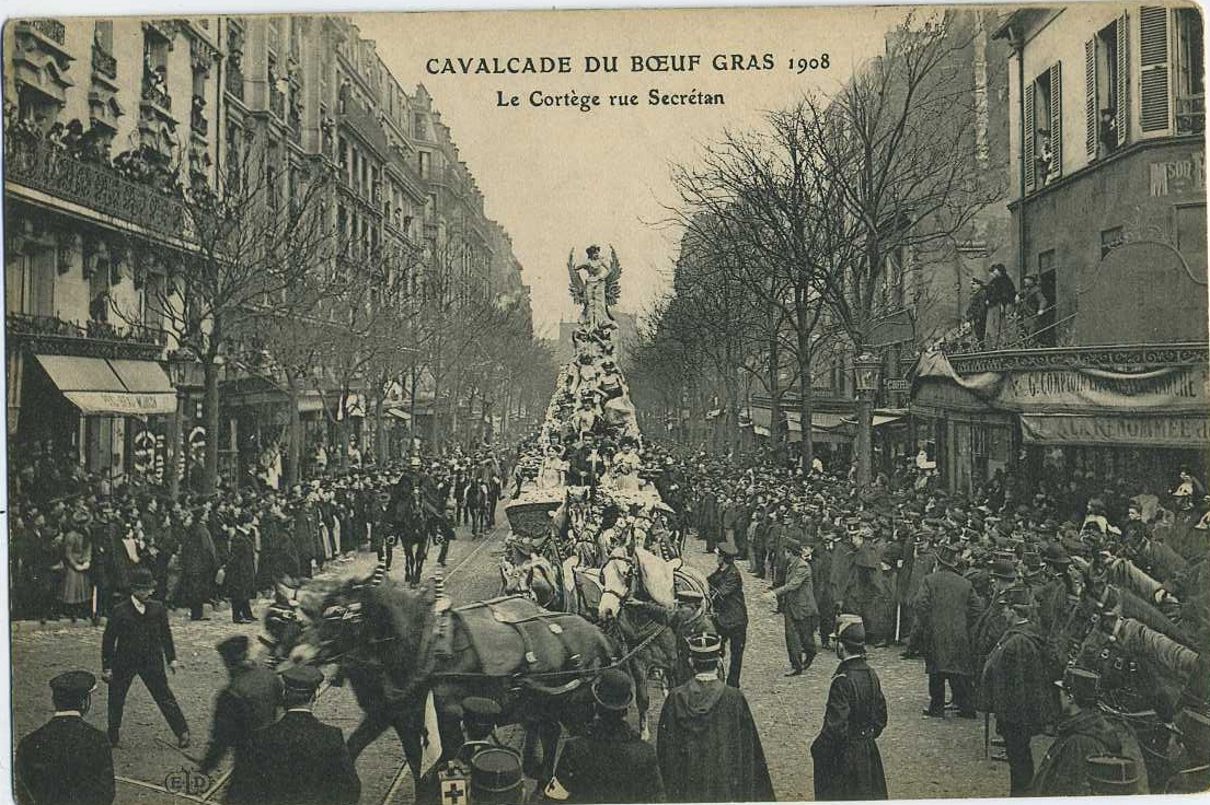 The Boeuf Gras carnival procession in Paris, 26 april 1908.